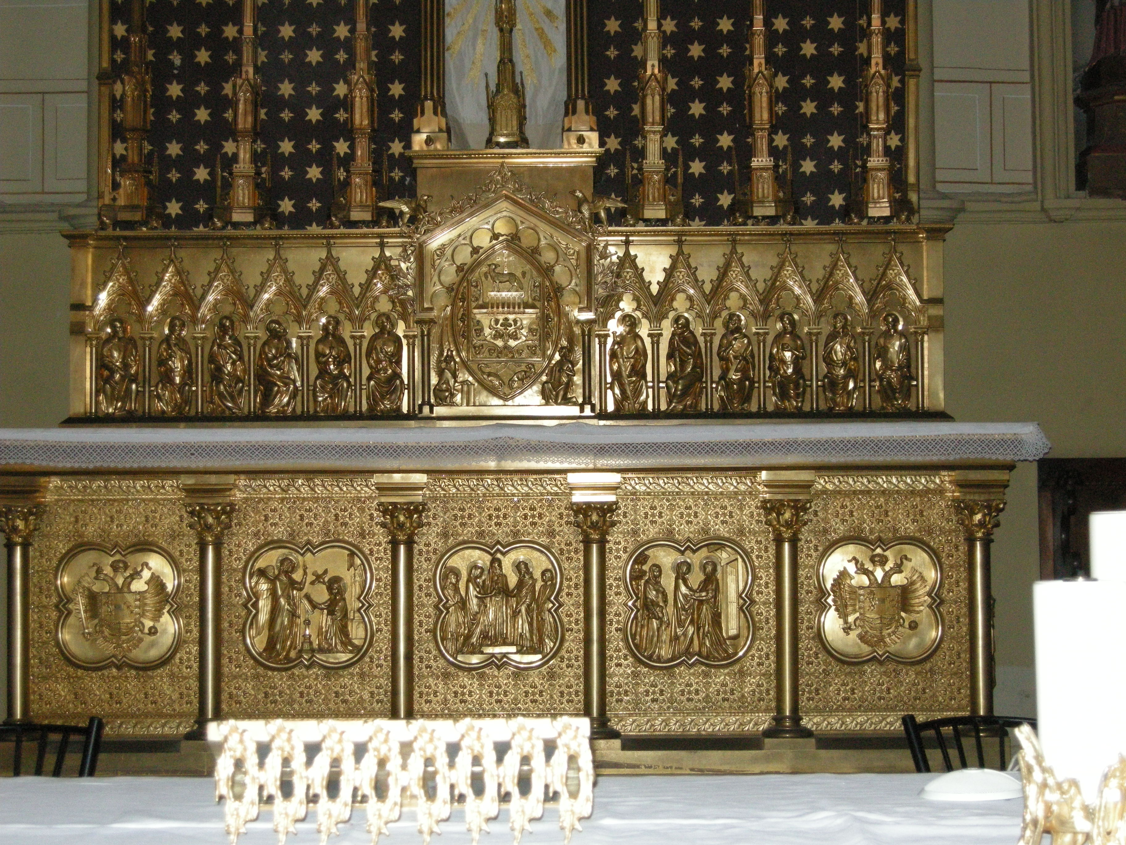 Visit in the Concathedral of the Latin Patriarch of Jerusalem, the main altar of gilded gold, by goldsmith Poussielgue, Paris. After a visit in November 1869 Austrian Emperor Franz Joseph provided a grant of 20,000 gold francs for the altar. Pupils of Viollet-de-Duc, France, designed the neo-gothic style altar. On the retable of the altar are 3 reliefs depicting the Annunciation, the Wedding of Mary and Joseph and the Visitation of the Virgin, flanked by the Emperor's crest of two eagles. In the center the twelve apostles are displayed and the tabernacle is highlighted by a gilded image of the Mystical Lamb.